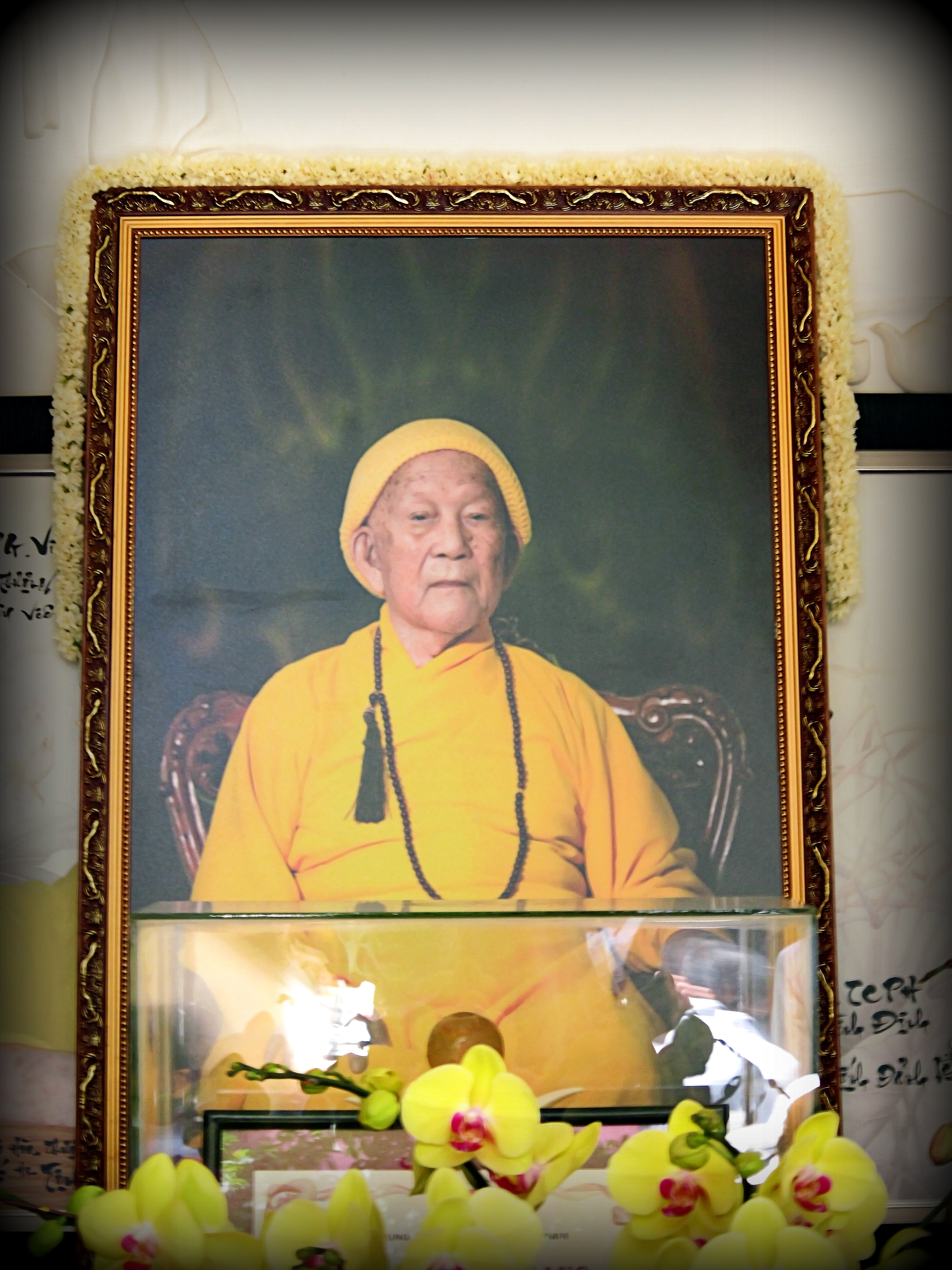 Di ảnh Hòa thượng Thích Trí Tịnh (1917-2014) trong chùa Vạn Đức ở Thủ Đức, TP. Hồ Chí Minh, Việt Nam.